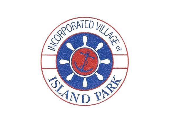 Village of Island Park Emblem